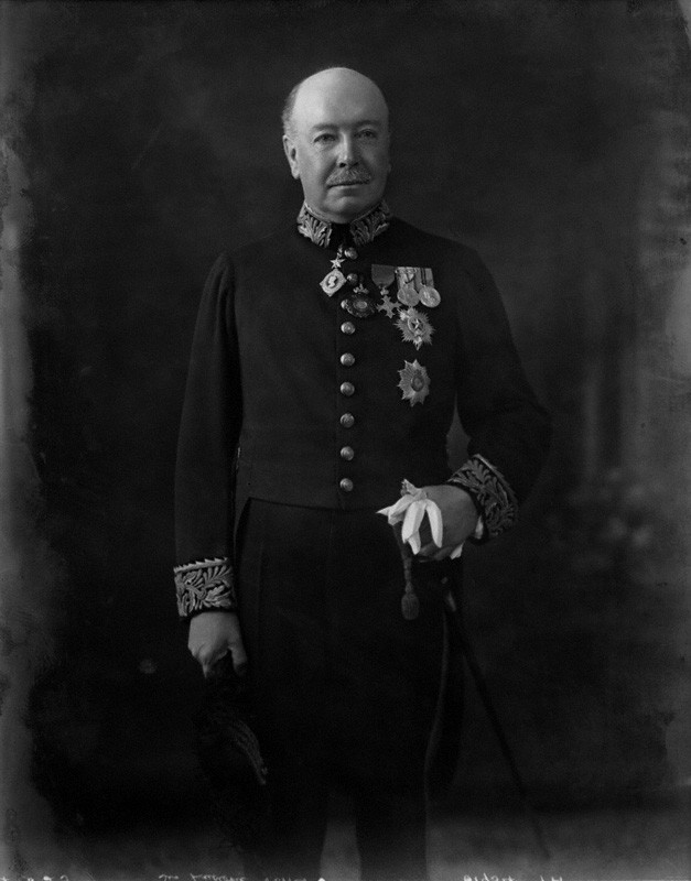 Portrait of Sir Ludovic Charles Porter